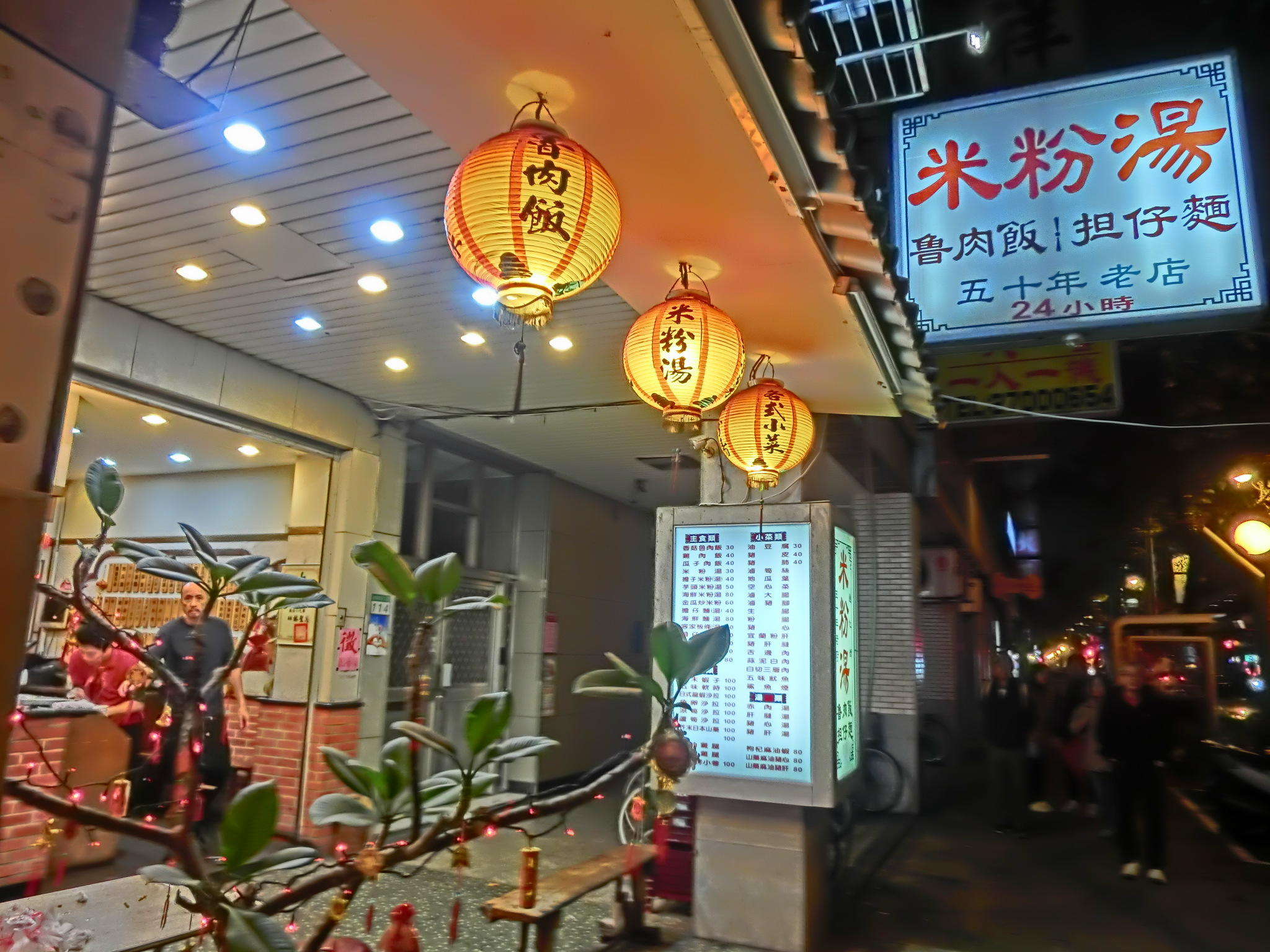 Shop sign of restaurant in Fuxing South Road, Da'an District, Taipei, Taiwan.